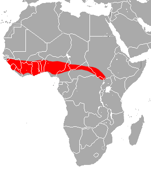 Aba Roundleaf Bat (Hipposideros abae) range, along with national borders